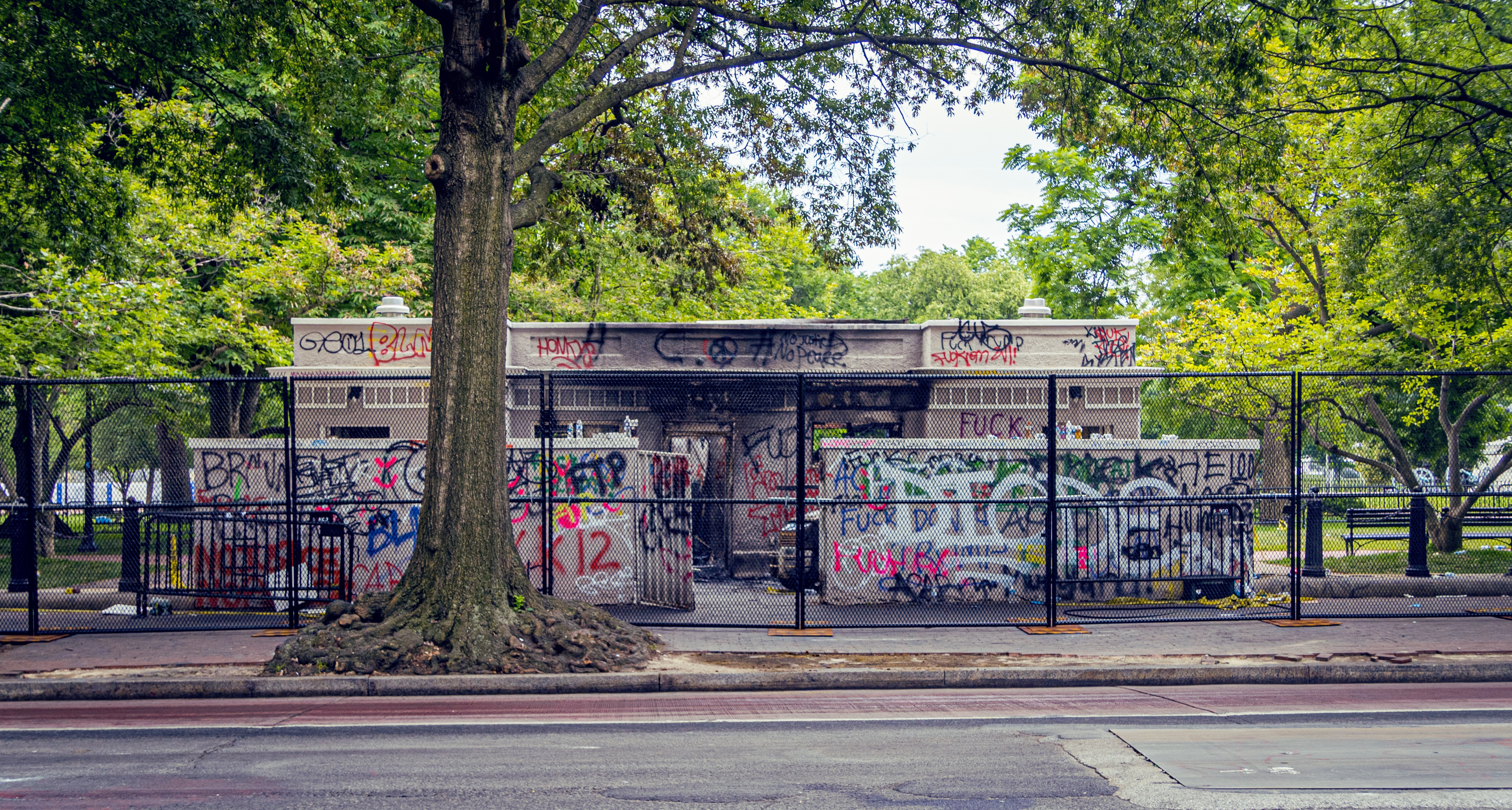 Protesting the murder of George Floyd, Washington, DC USA